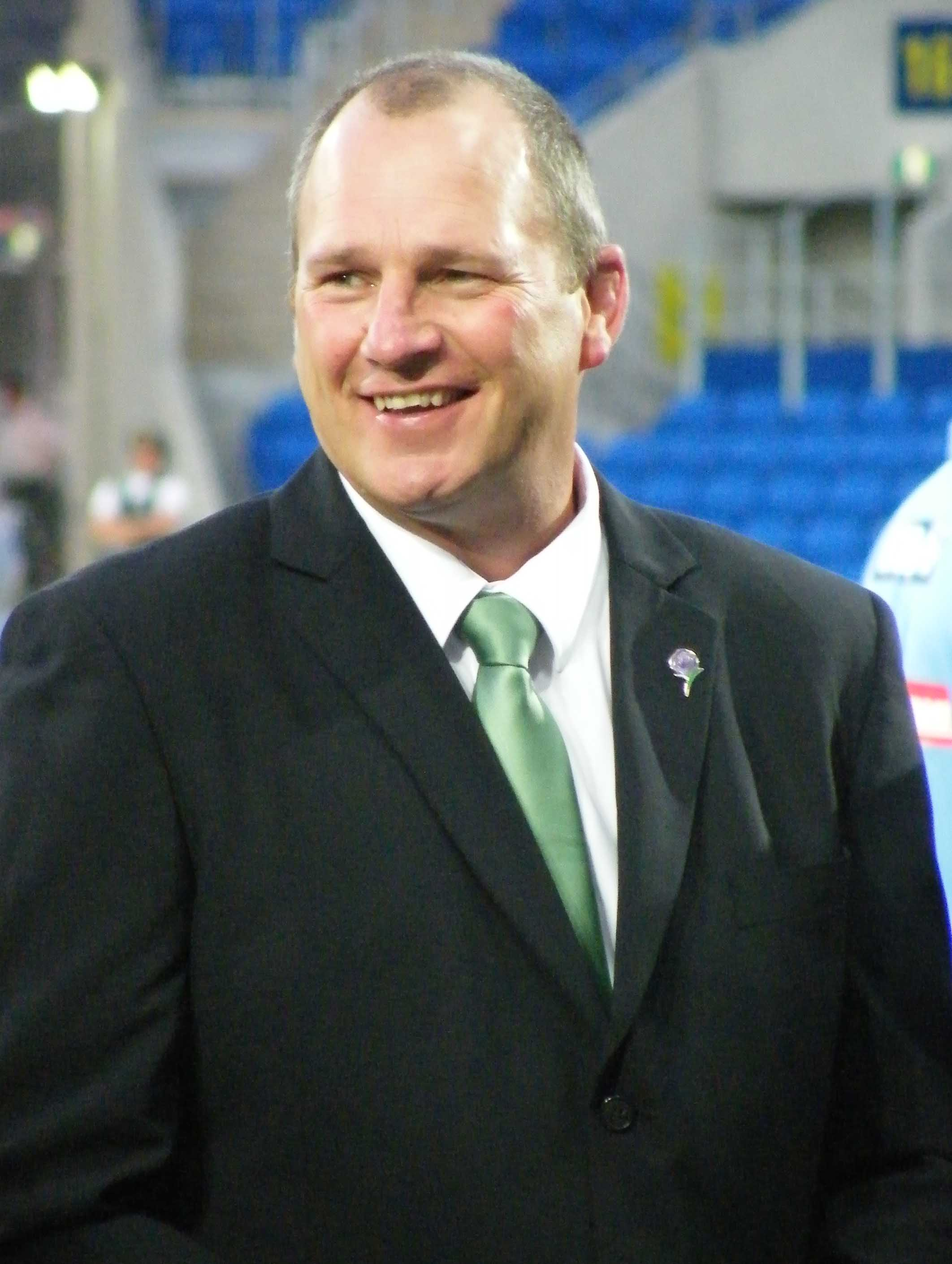 RLWC - Fiji v Ireland, Gold Coast 2008. Ireland coach Andy Kelly